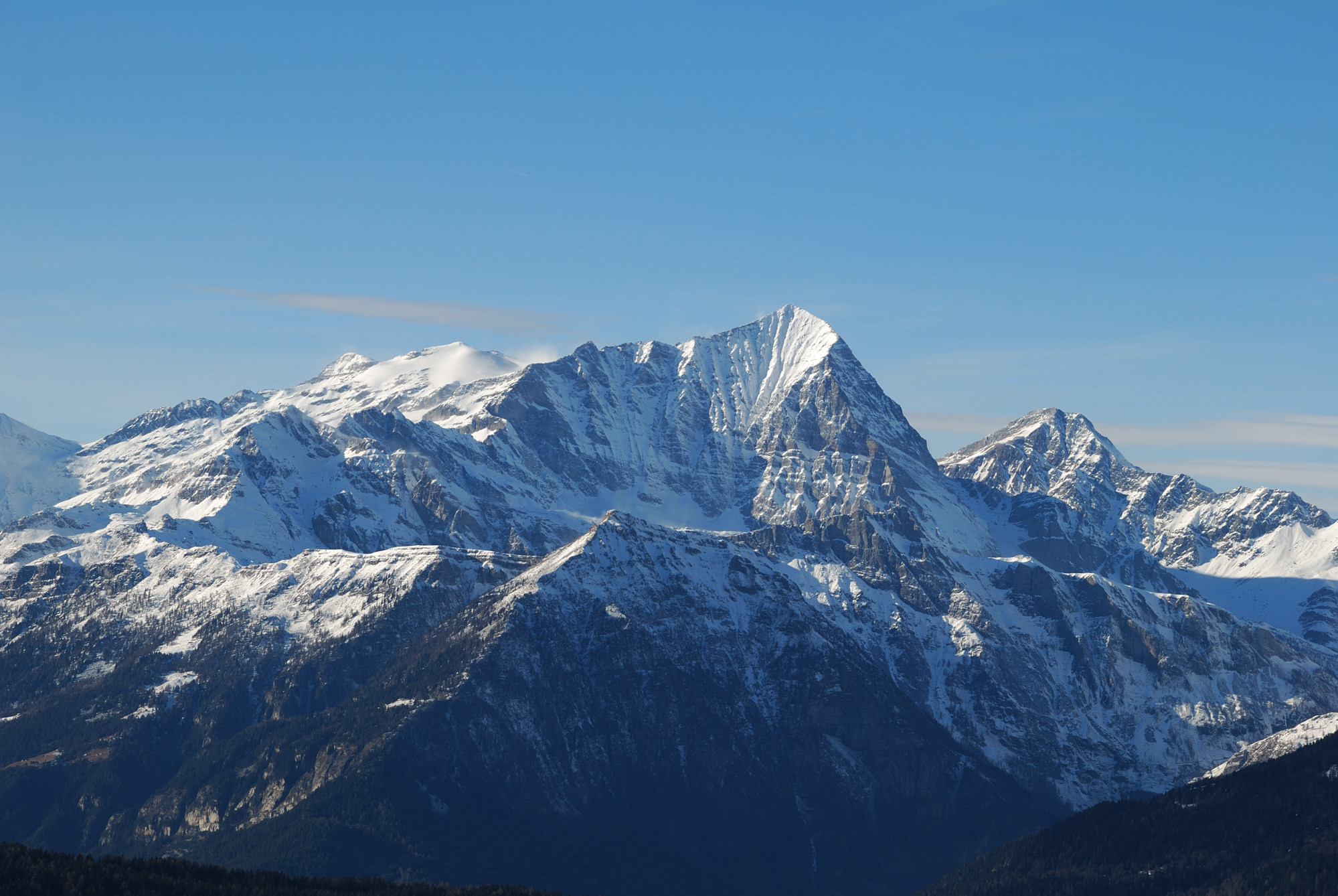 Breithorn, Monte Leone, Wasenhorn